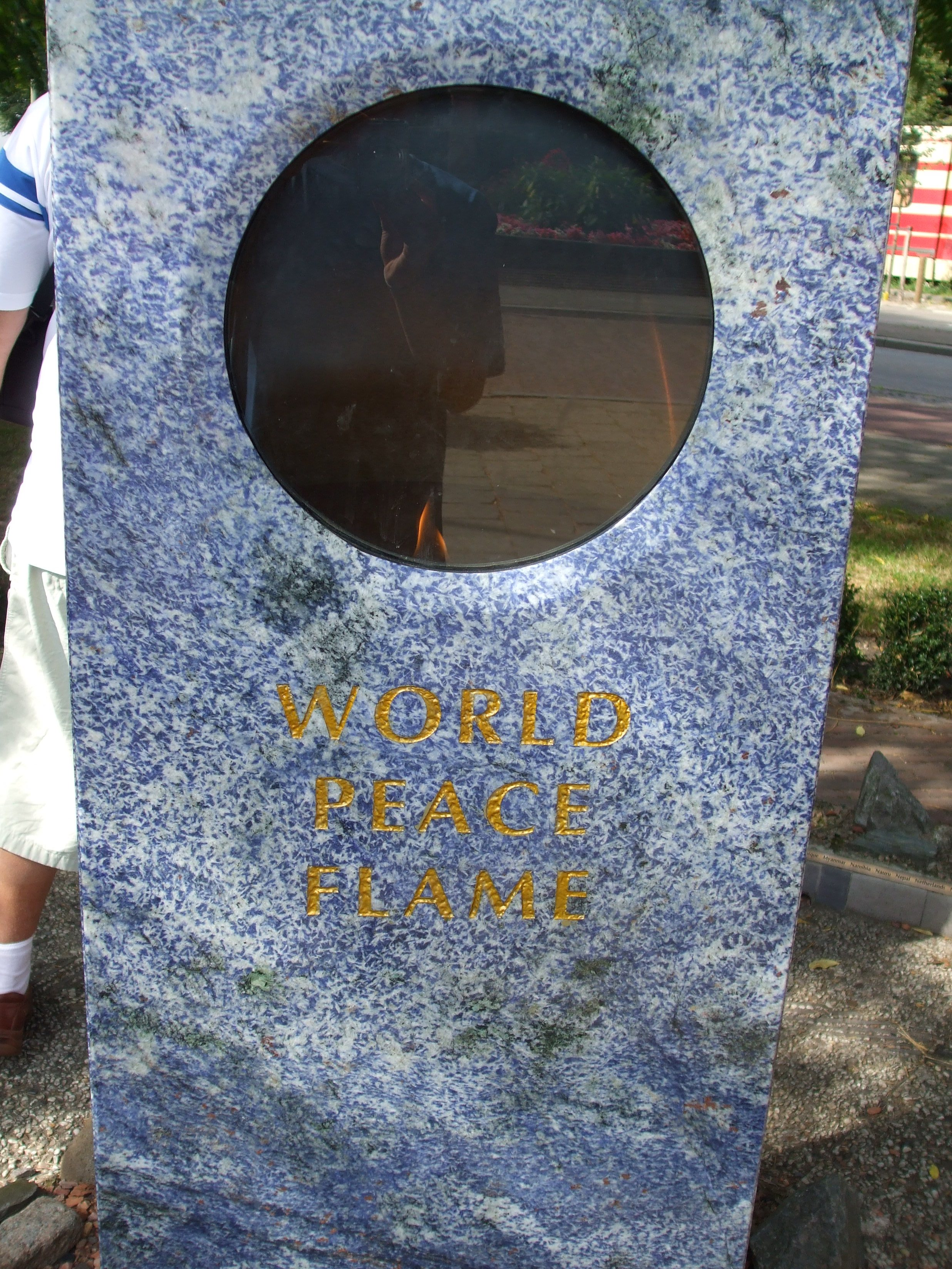 Monument to Eternal Peace Flame by the Peace Palace, The Hague